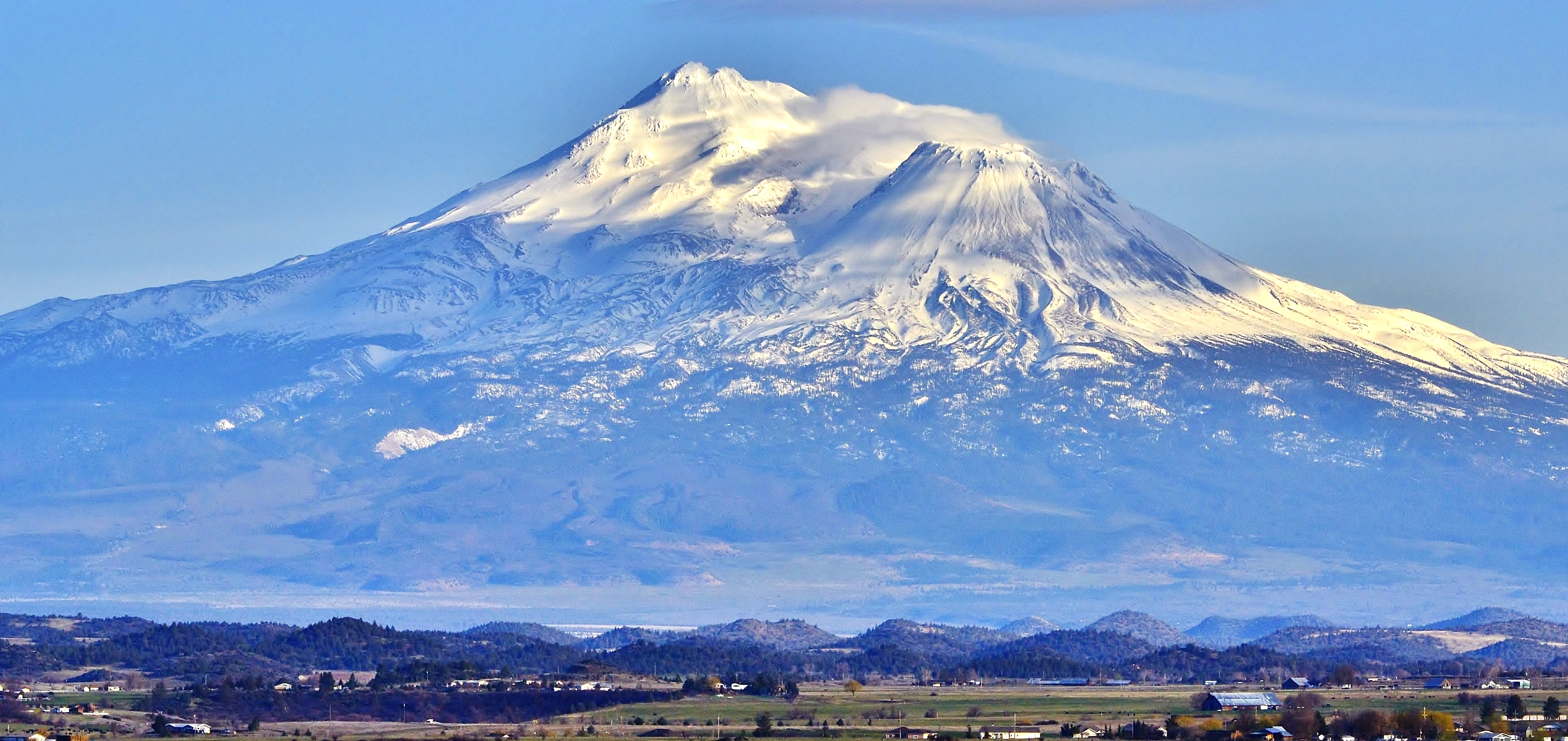 Mt. Shasta